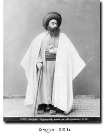 An Azeri mollahin Georgia.